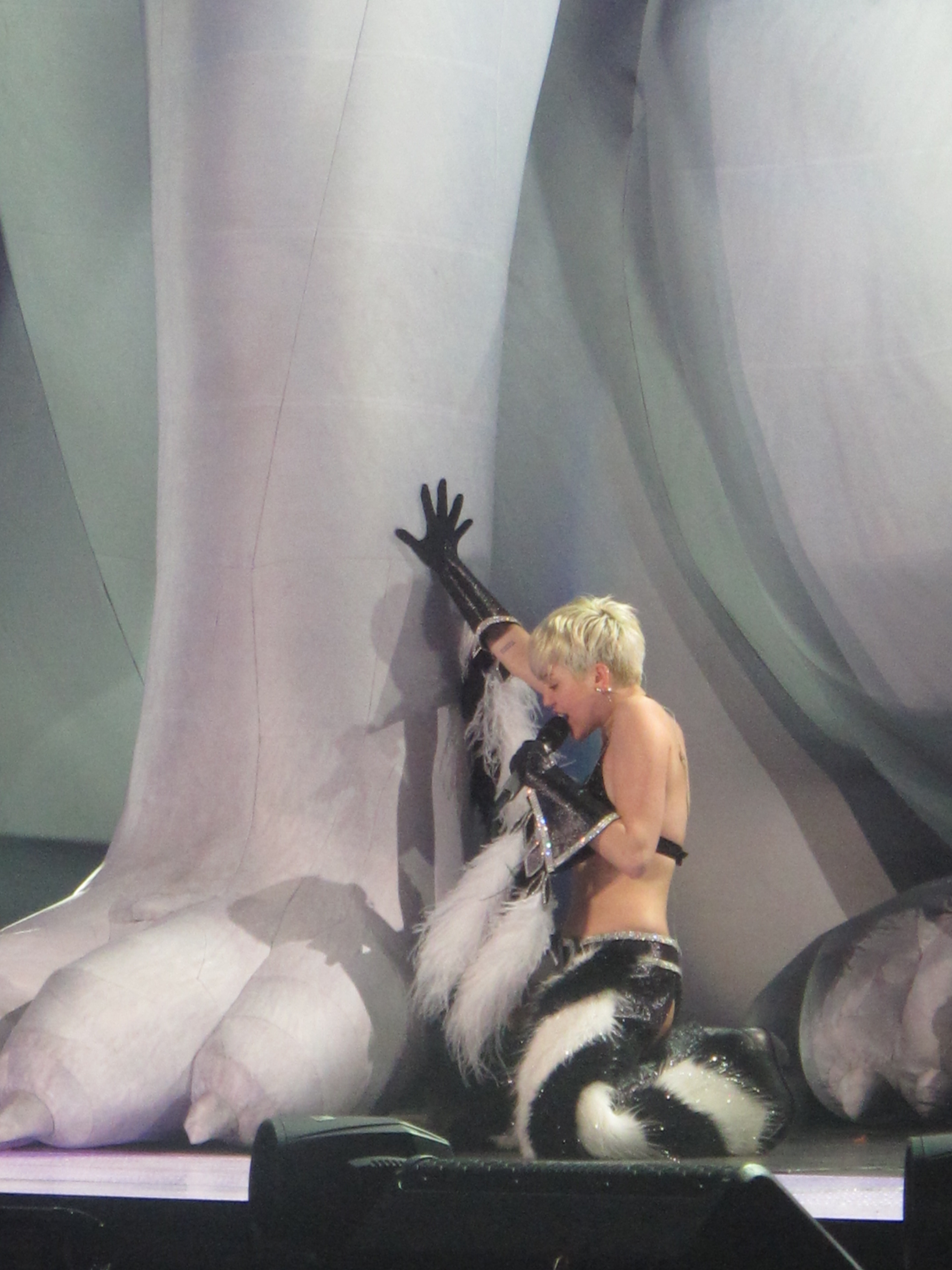 Miley Cyrus-Bangerz Tour